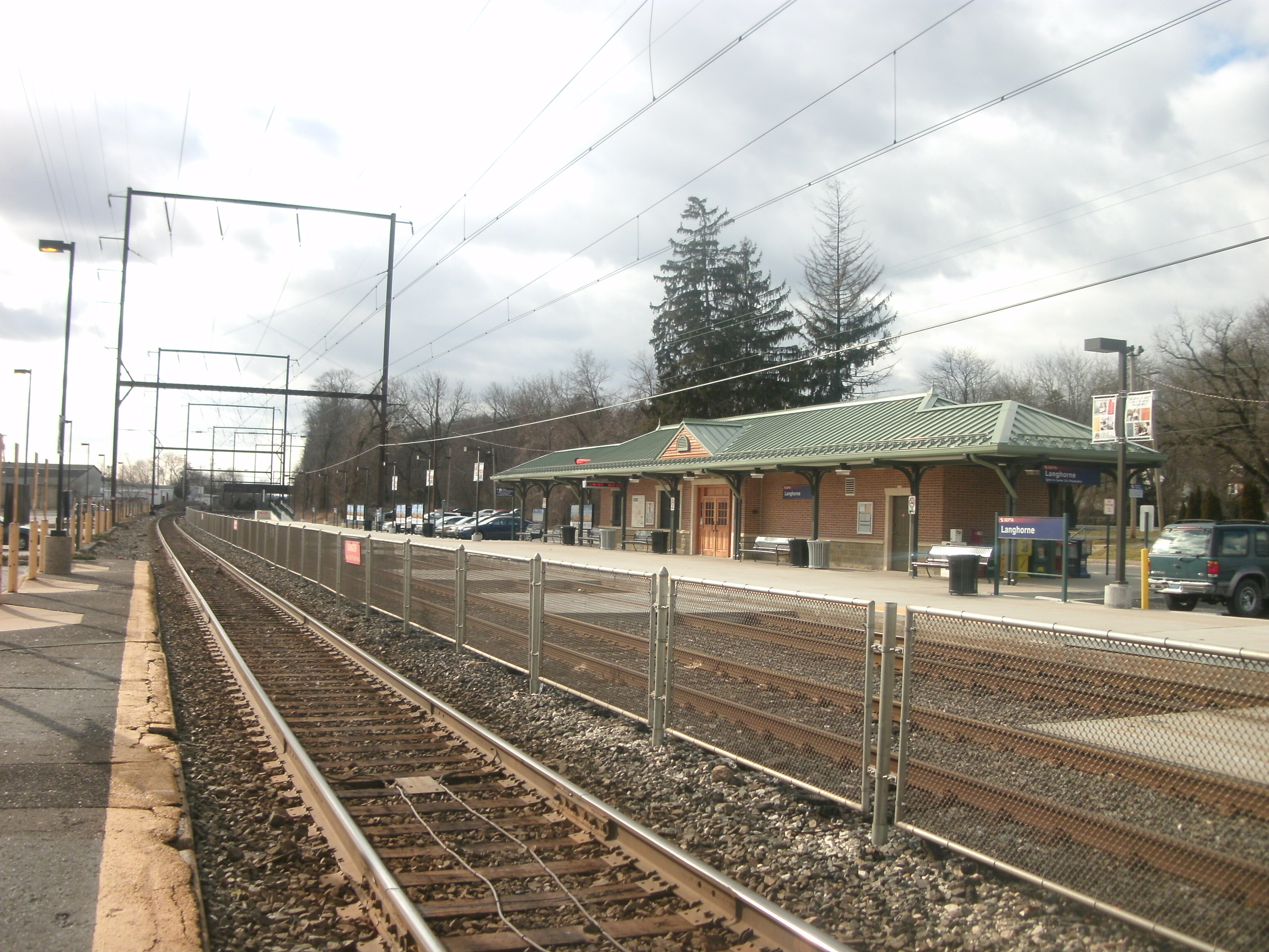 Langhorne Station facing inbound from the former outbound platform for SEPTA's West Trenton Line.